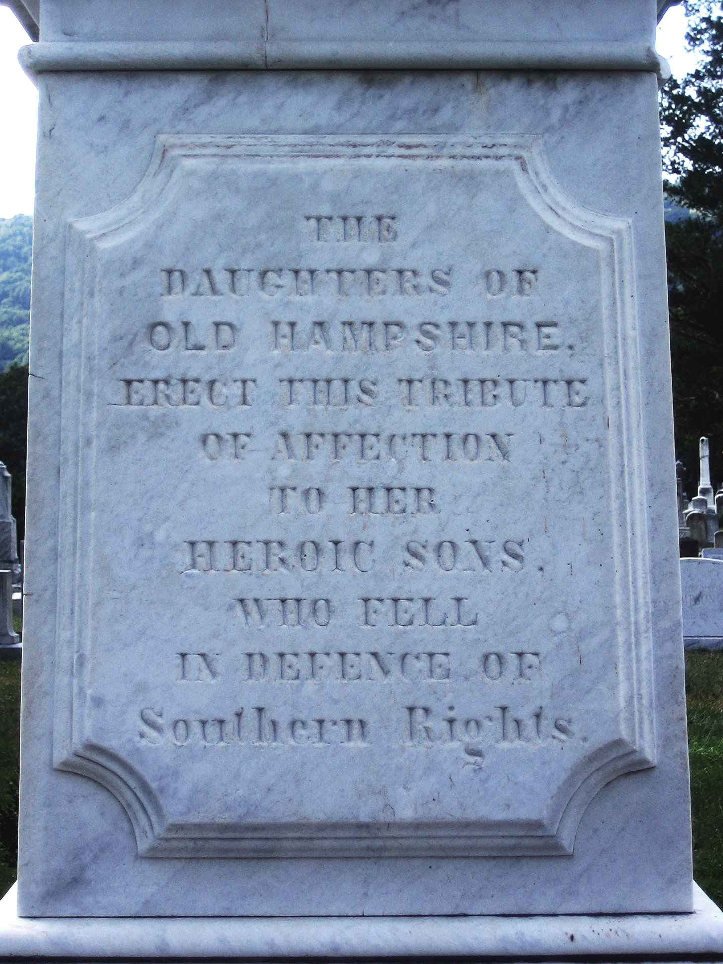 The Confederate Memorial (also referred to as the First Confederate Memorial) is a memorial in Indian Mound Cemetery in Romney, West Virginia. The memorial commemorates residents of Hampshire County who died during the American Civil War fighting for the Confederate States of America. The memorial was sponsored by the Confederate Memorial Association, which formally dedicated the monument on September 26, 1867. It is thought to be the first memorial structure erected to memorialize the Confederate dead in the United States. Romney also claims to have undertaken the first public decoration of Confederate graves on June 1, 1866. Note that the script of the last words "Southern Rights" differs from the rest of the inscription. These words were added after the monument arrived in Romney and before it was erected to insure that this first monument to Confederate soldiers would not be interfered with prior to its placement.